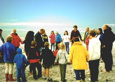 Joint Activity on Anholt camp Ca 2000. Anholt beach, Denmark